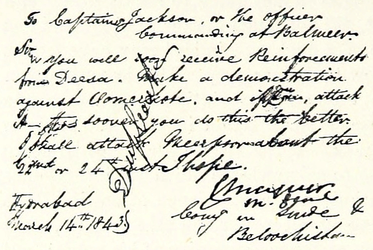 Image taken from: Title: "Bombay and Western India. A series of stray papers" Author: DOUGLAS, James - of Bombay Shelfmark: "British Library HMNTS 010056.h.10.", "British Library OC ORW.1986.a.2990" Volume: 02 Page: 128 Place of Publishing: London Date of Publishing: 1893 Publisher: Sampson Low & Co. Issuance: monographic Identifier: 000973604 Note: The colours, contrast and appearance of these illustrations are unlikely to be true to life. They are derived from scanned images that have been enhanced for machine interpretation and have been altered from their originals. If you wish to purchase a high quality copy of the page that this image is drawn from, please order it here. Please note that you will need to enter details from the above list - such as the shelfmark, the page, the book's volume and so on - when filling out your order. Explore: Find this item in the British Library catalogue, 'Explore'. Open the page in the British Library's itemViewer (page: 128) Download the PDF for this book Click here to see all the illustrations in this book and click here to browse other illustrations published in books in the same year. Please click on the tags shown on the right-hand side for other ways to browse the illustrations.